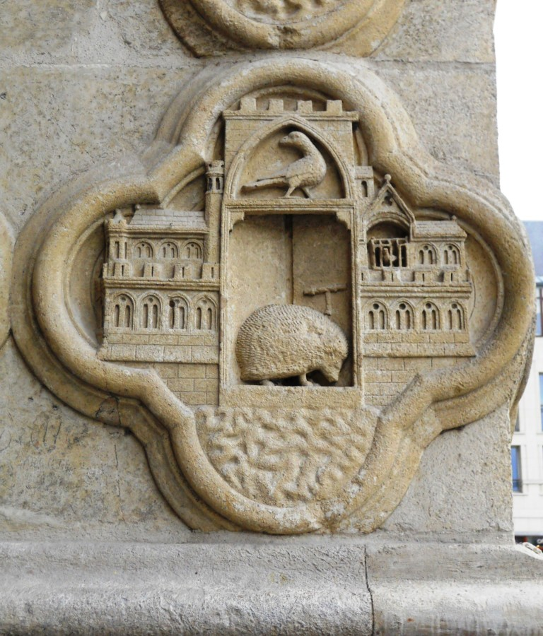 Amiens, hedgehog in a tower